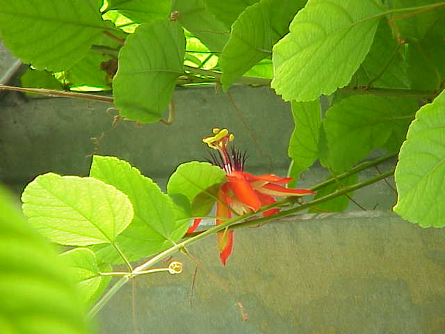 Species: Passiflora miniata (P. coccinea of gardens) Family: Passifloraceae Image No. 1